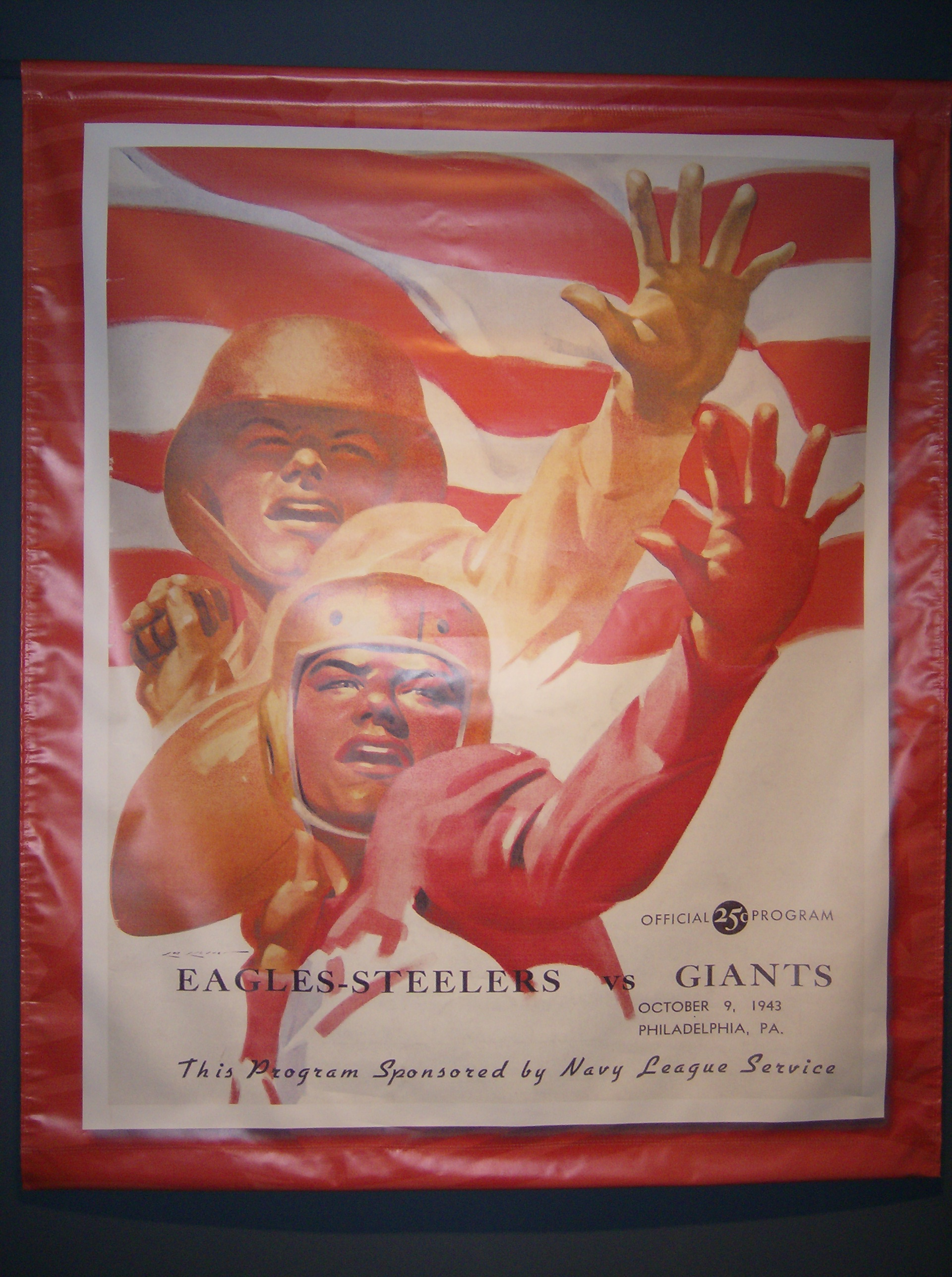 I took this picture in the Football Hall of Fame in Canton.